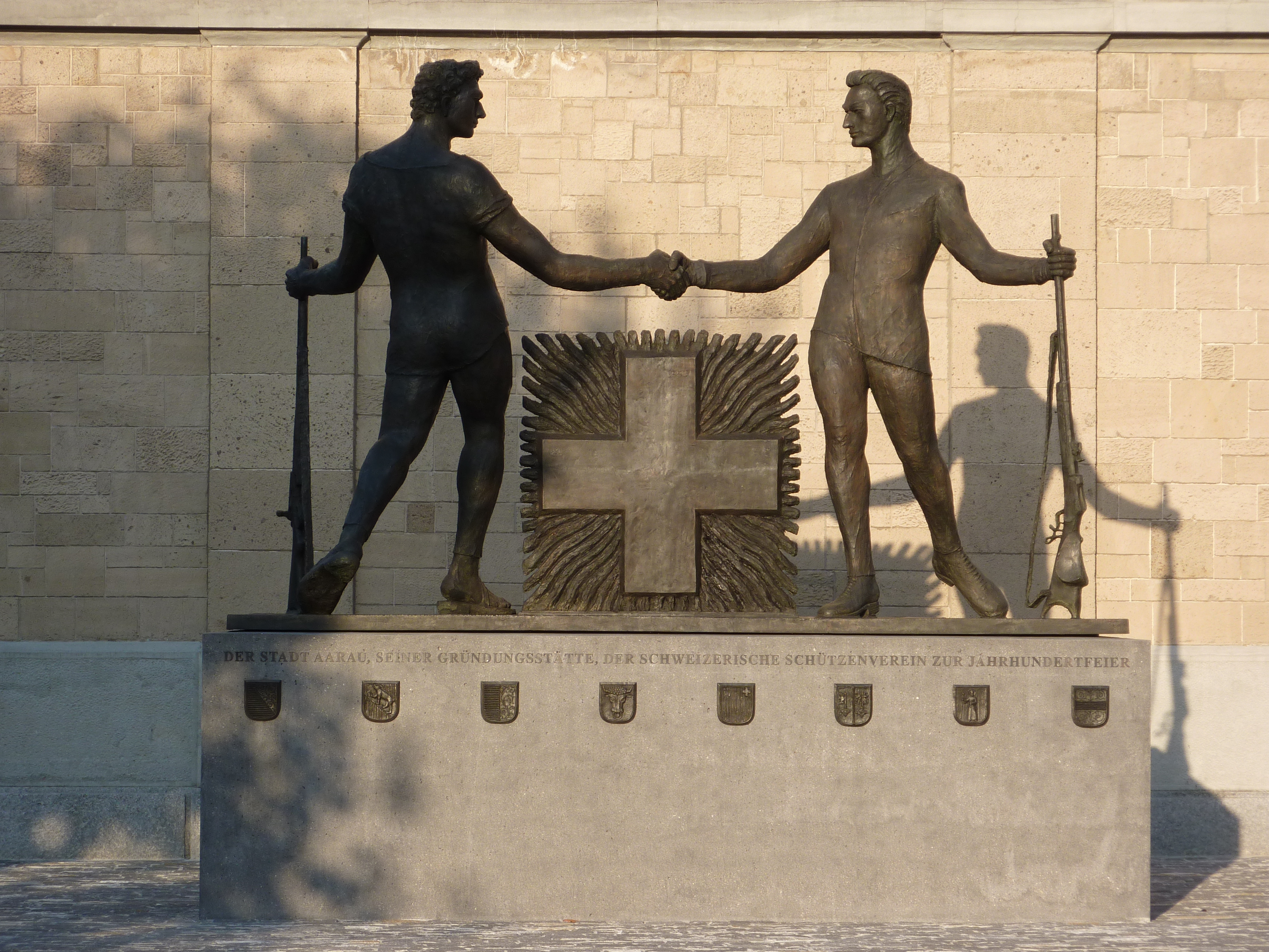 Schützendenkmal in Aarau, neuer Standort bei Kaserne